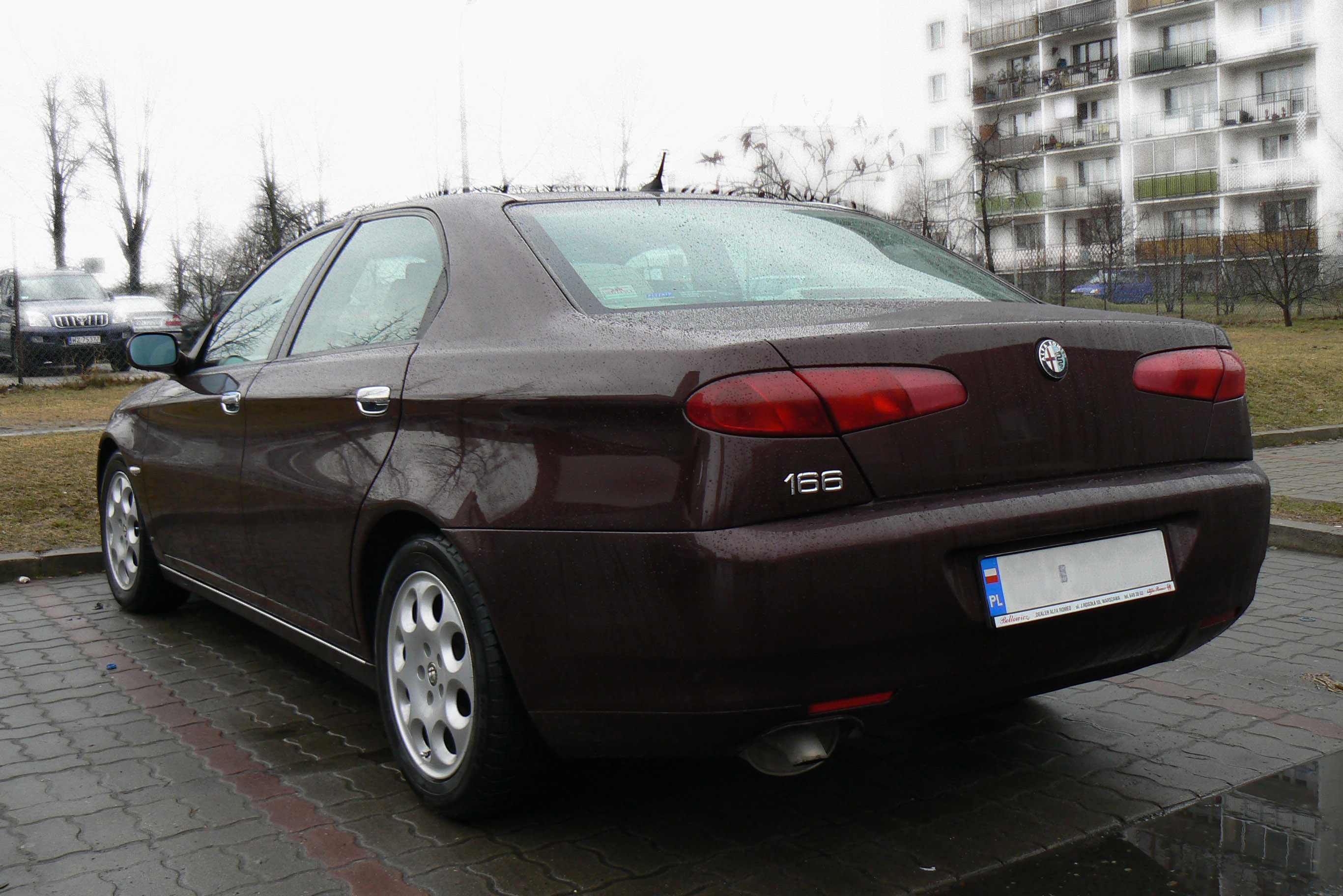 Alfa Romeo 166 photographed in Warsaw, Poland. Rear. Filtered background for better car exposure.